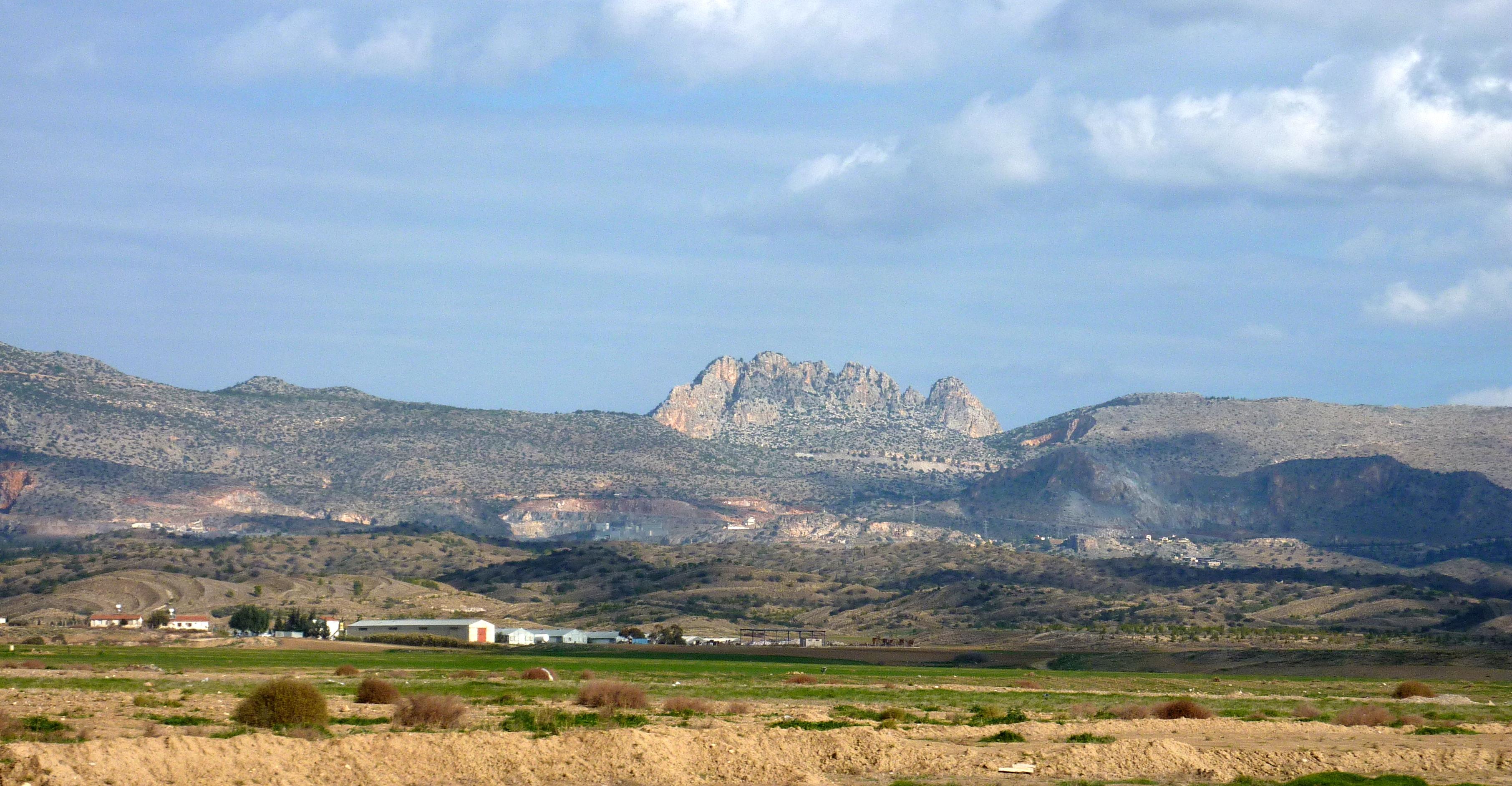 A view of Pentadaktylos and Mesaoria